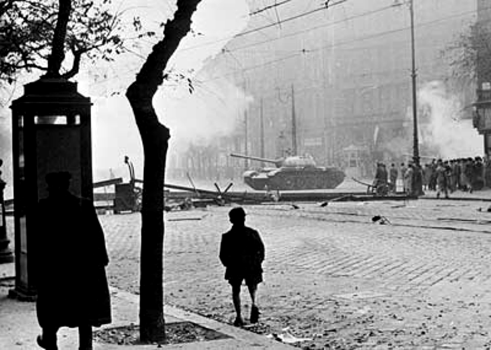 A Soviet tank attempts to clear a road barricade in Budapest, Hungary.